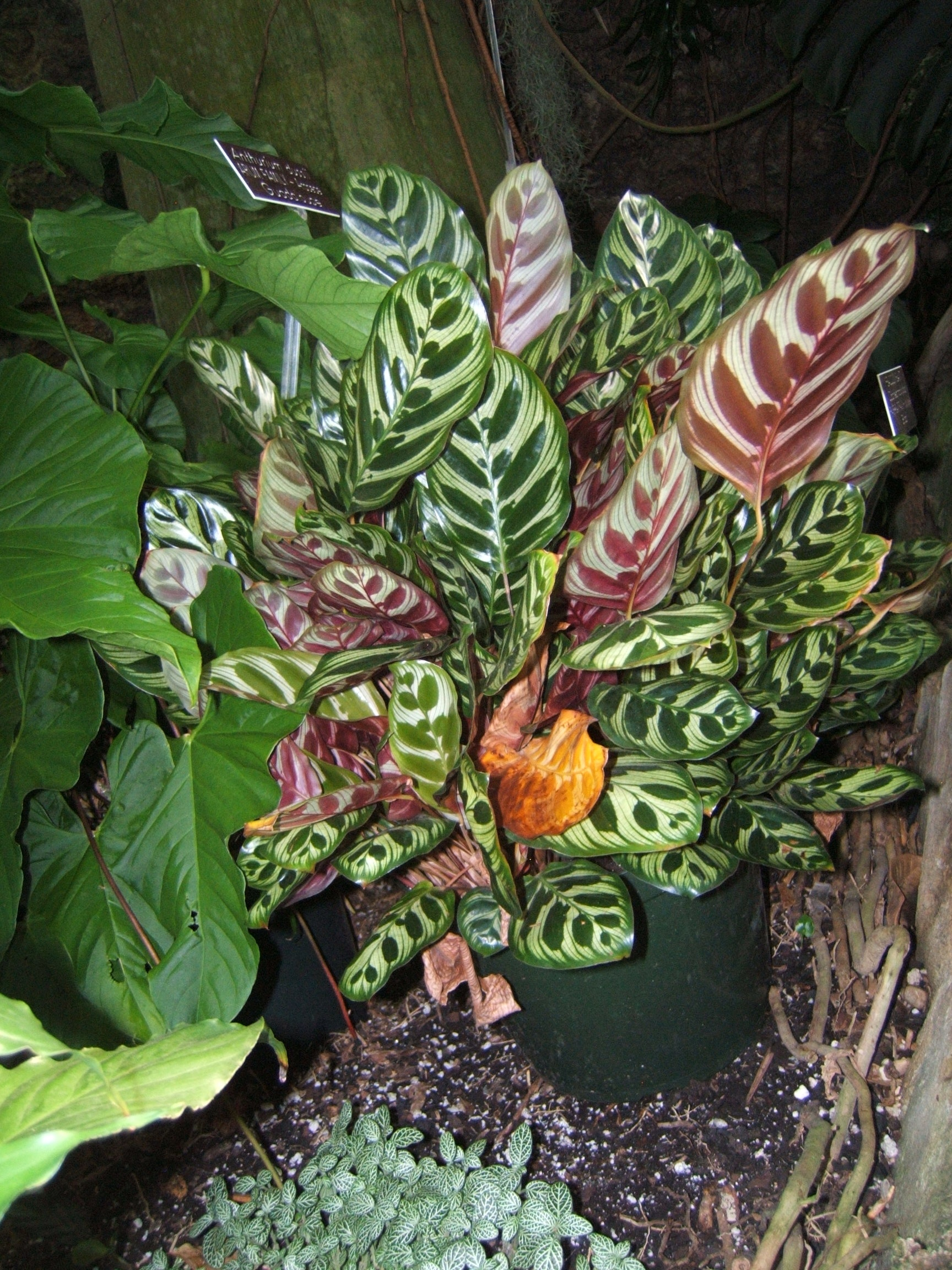 Calathea makoyana at the US Botanical Garden